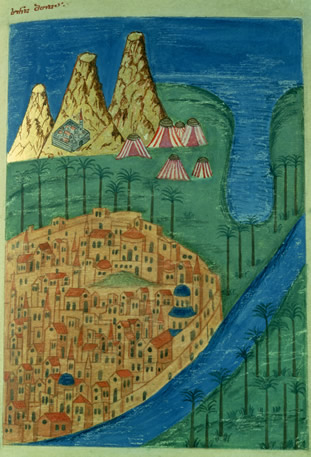 Mt. Sinai Peninsula. Illumination from a late medieval Georgian manuscript (Tbilisi, Georgian National Center of Manuscripts, Psalter H-182, f. 227). The Monastery of St. Catherine is shown in the upper left. Bedouin tents sit between the mountains and the Gulf of Suez. The city of Cairo, on the bank of the river Nile, is seen in the foreground.